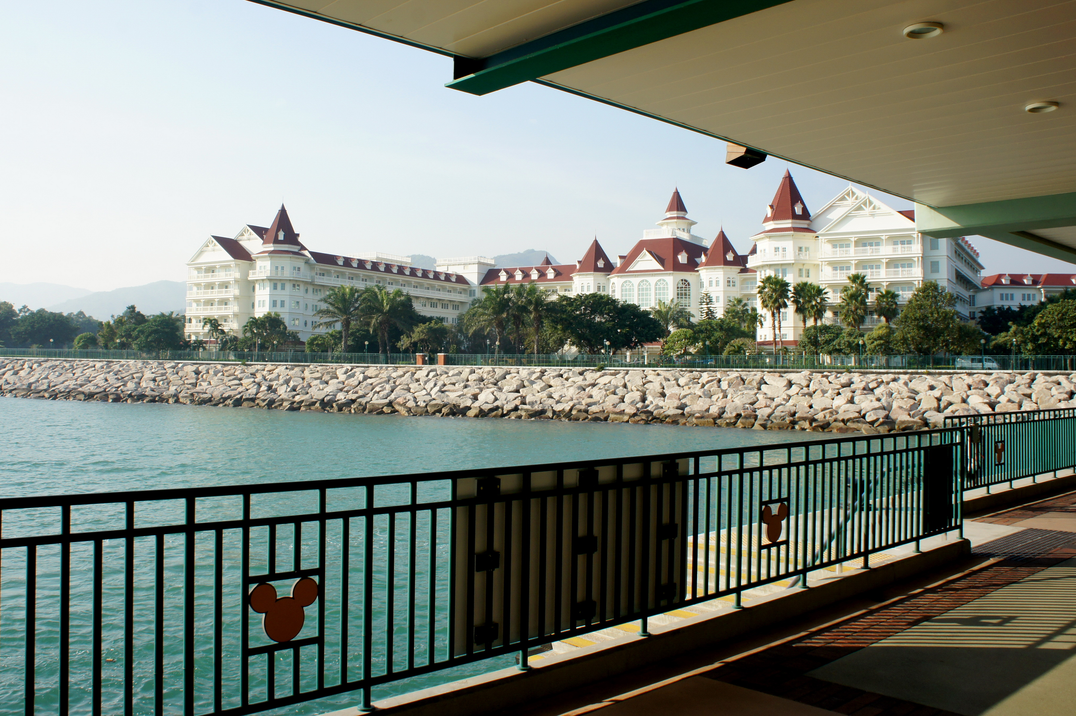 Hong Kong Disneyland Hotel viewed from Disney Resort Pier.中文（香港）: 從香港迪士尼樂園渡輪碼頭望向香港迪士尼樂園酒店